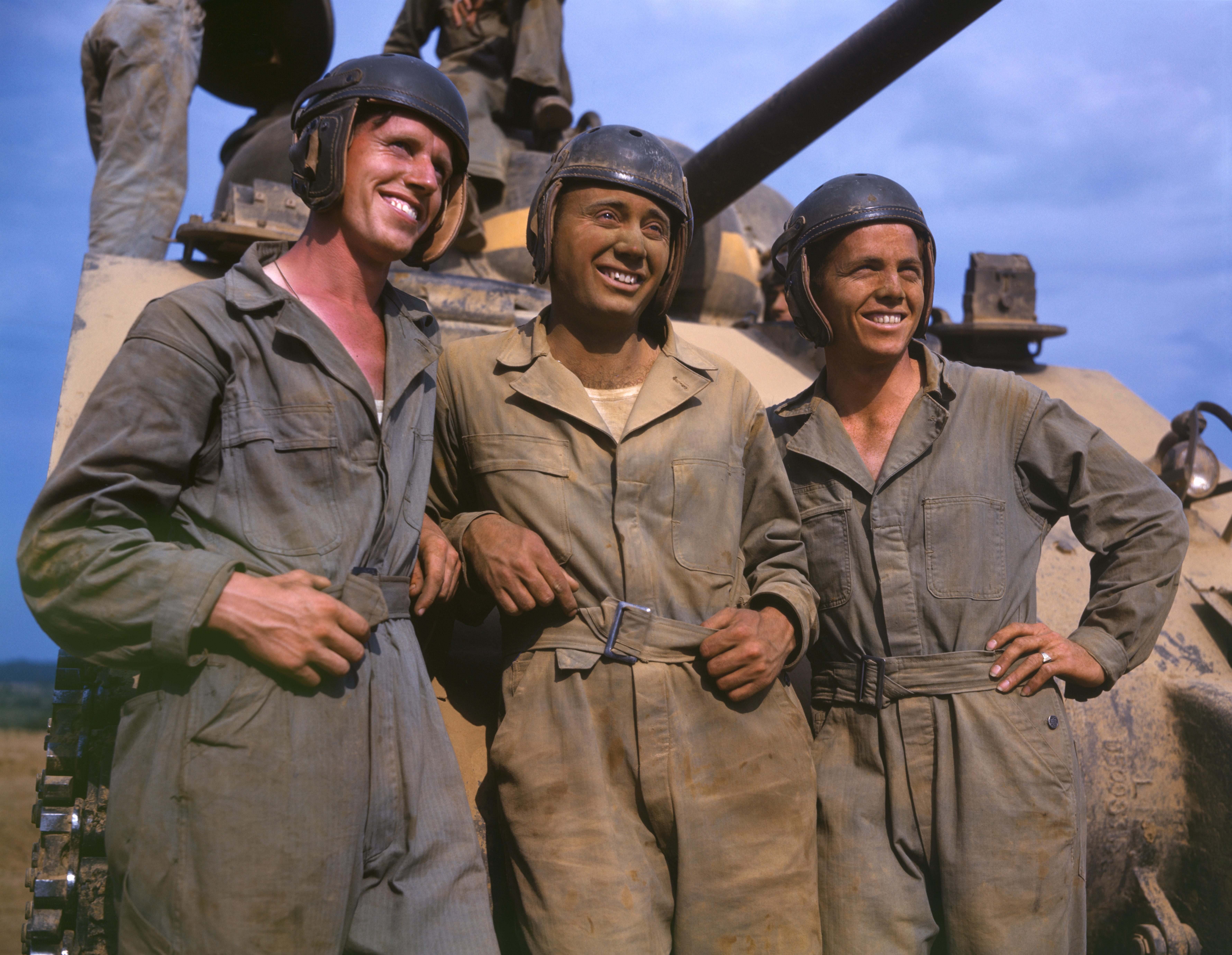 M-4 tank crews of the United States, Ft. Knox, Ky.